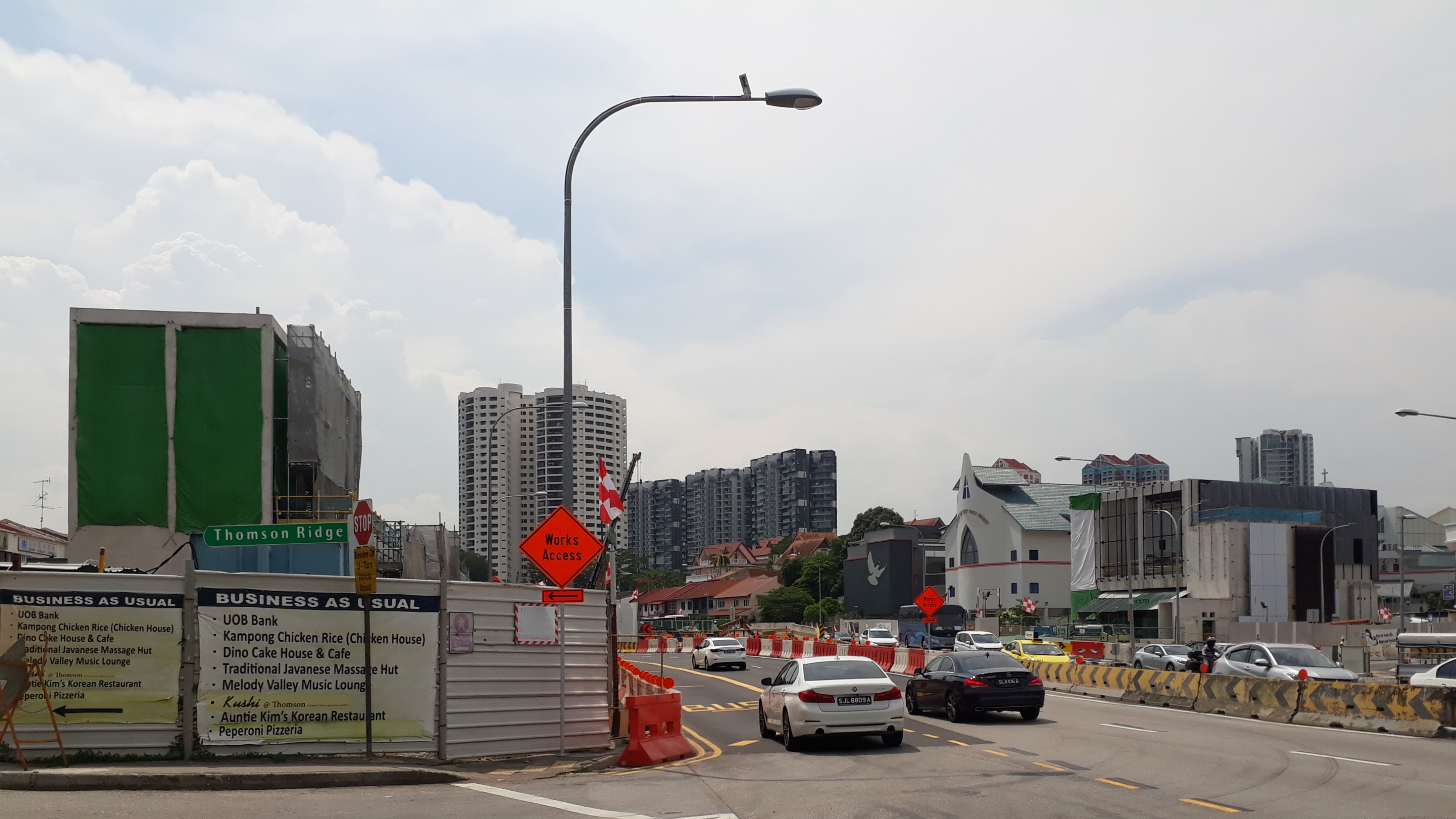 Upper Thomson Under Construction